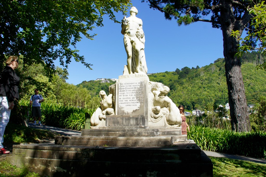 Holland Monument at Bolton Street Memorial Park, a cemetery in Wellington, New Zealand